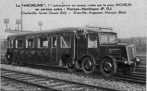 First railcar "Micheline" mounted on tires.